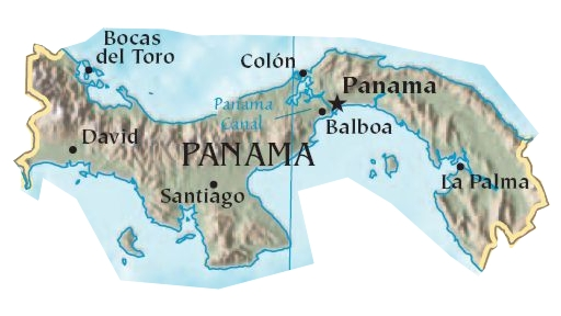 This is a map of El Salvador